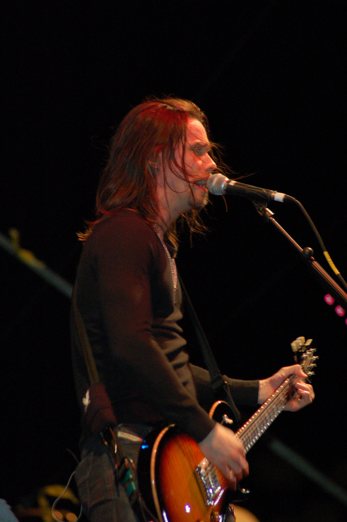 Myles Kennedy Live San Antonio